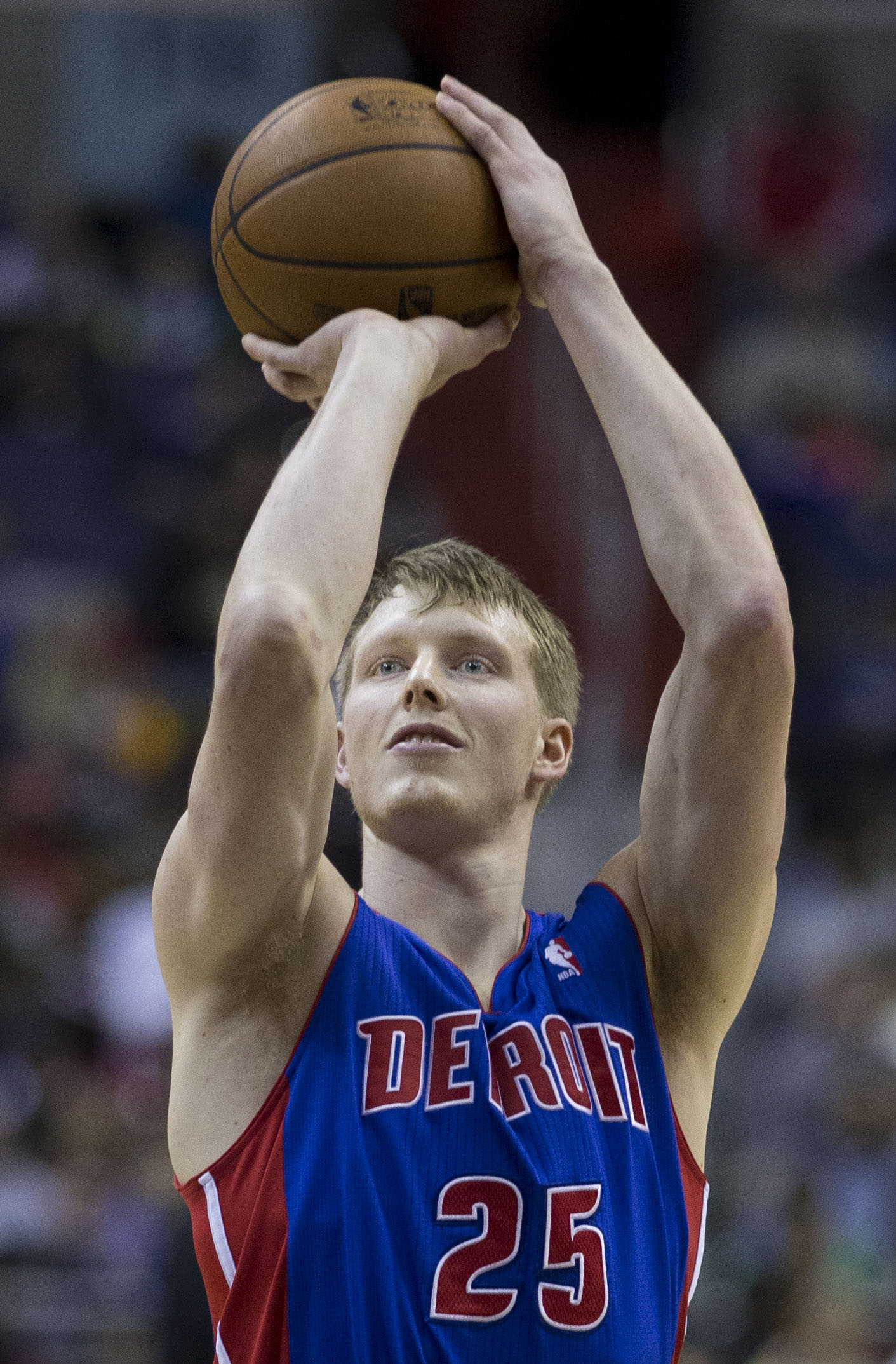 Pistons at Wizards 1/18/14